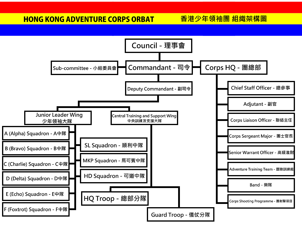 The orbat of HKAC.